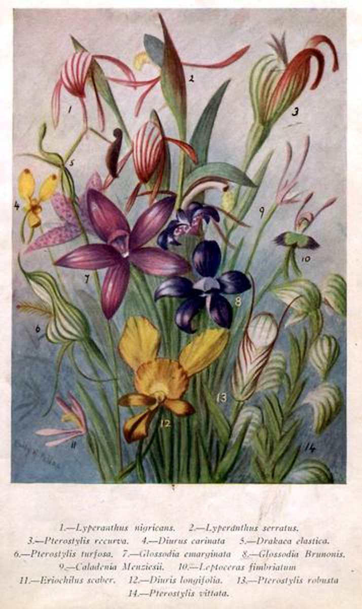 Plate III of Emily Pelloe: "West Australian Orchids" Species in this plate 1 Lyperanthus nigricans (= Pyrorchis nigricans) 2 Lyperanthus serratus 3 Pterostylis recurva 4 Diuris carinata 5 Drakaea elastica 6 Pterostylis turfosa 7 Glossodia emarginata (= Elythranthera emarginata) 8 Glossodia brunonis (= Elythranthera brunonis) 9 Caladenia menziesii (= Leptoceras menziesii) 10 Leptoceras fimbriata (= Leporella fimbriata) 11 Eriochilus scaber 12 Diuris longifolia 13 Pterostylis robusta 14 Pterostylis vittata